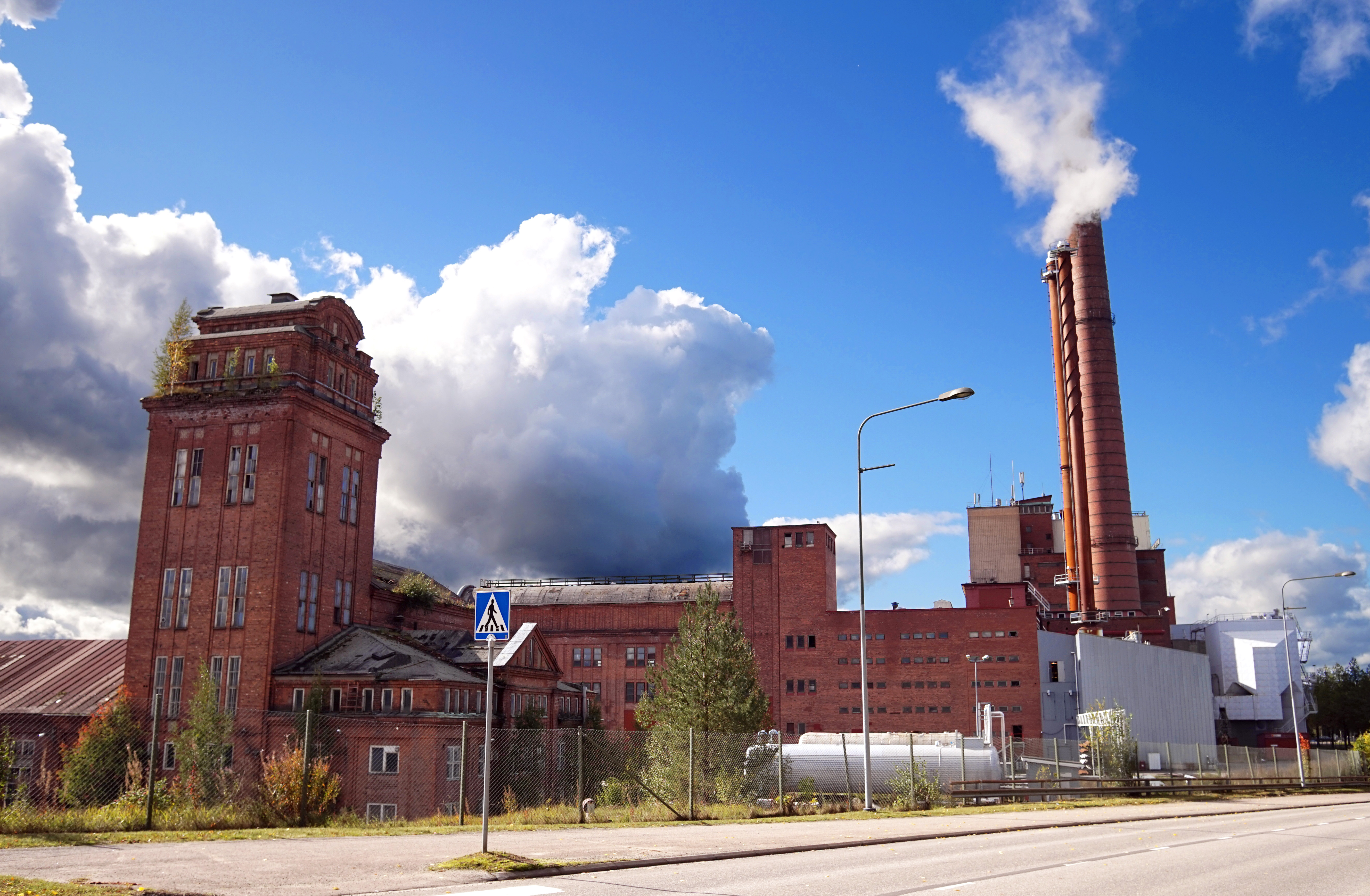 A factory in Mänttä, Finland.